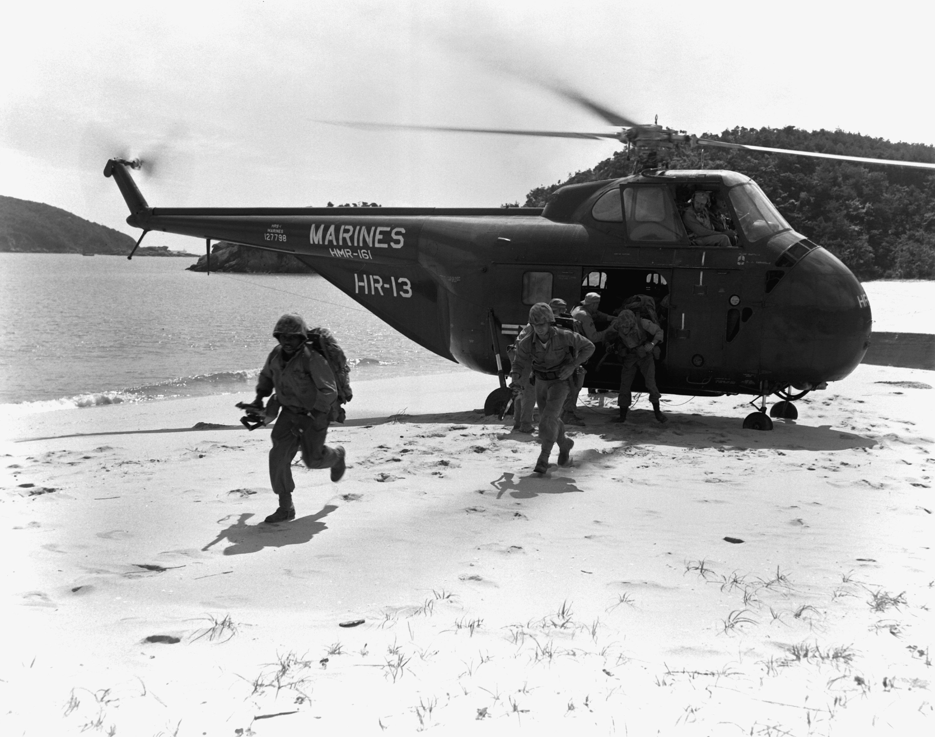 U.S. Marines debarking from a Sikorsky HRS-1 (BuNo 127798) in Korea, ca. 1953. The helicopter was assigned to Marine helicopter transport squadron HMR-161, 1st Marine division and crashed into the sea 40 km (25 mi) south of Pusan, South Korea, during a rendezvous with an aircraft carrier on 2 February 1953. The pilot Captain Allen W. Ruggles and his crew chief, Technical Sergeant Joseph L. Brand Jr. died in the crash. Mechanical trouble was believed to have been the cause; neither the bodies nor the aircraft were recovered.